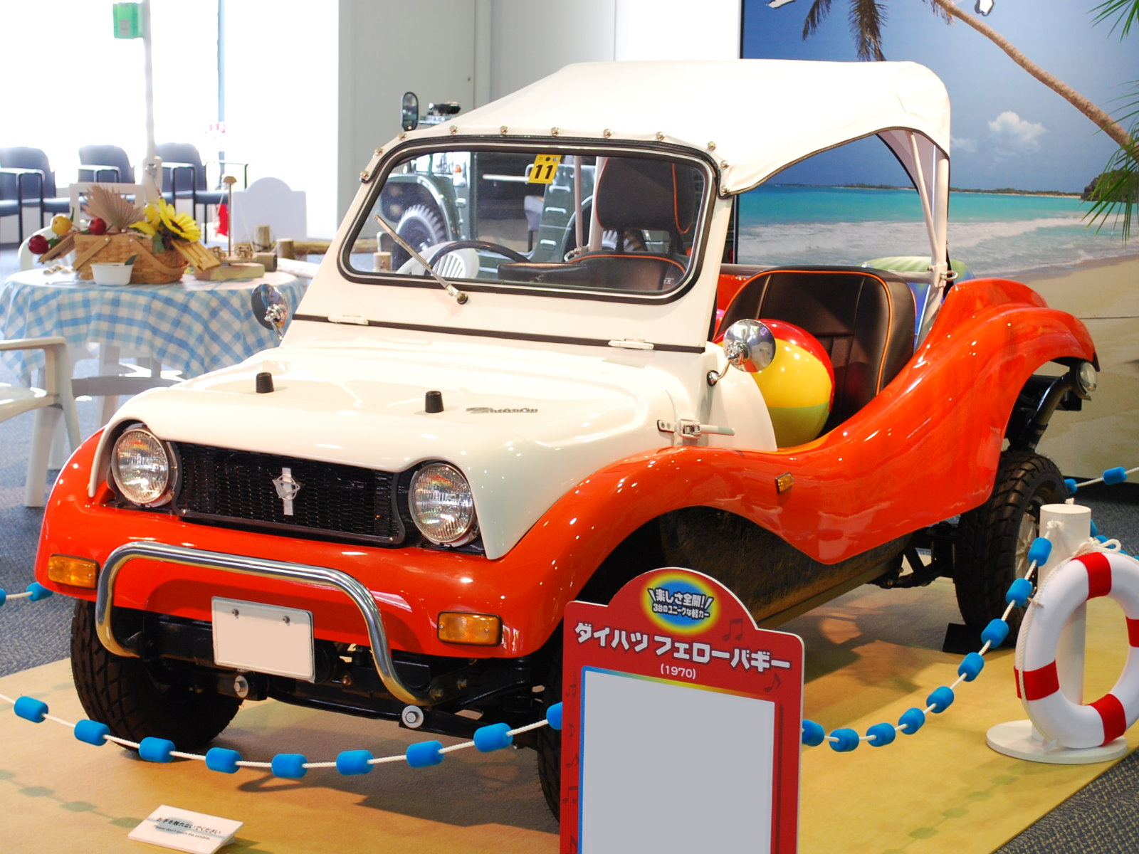 Daihatsu Fellow Buggy